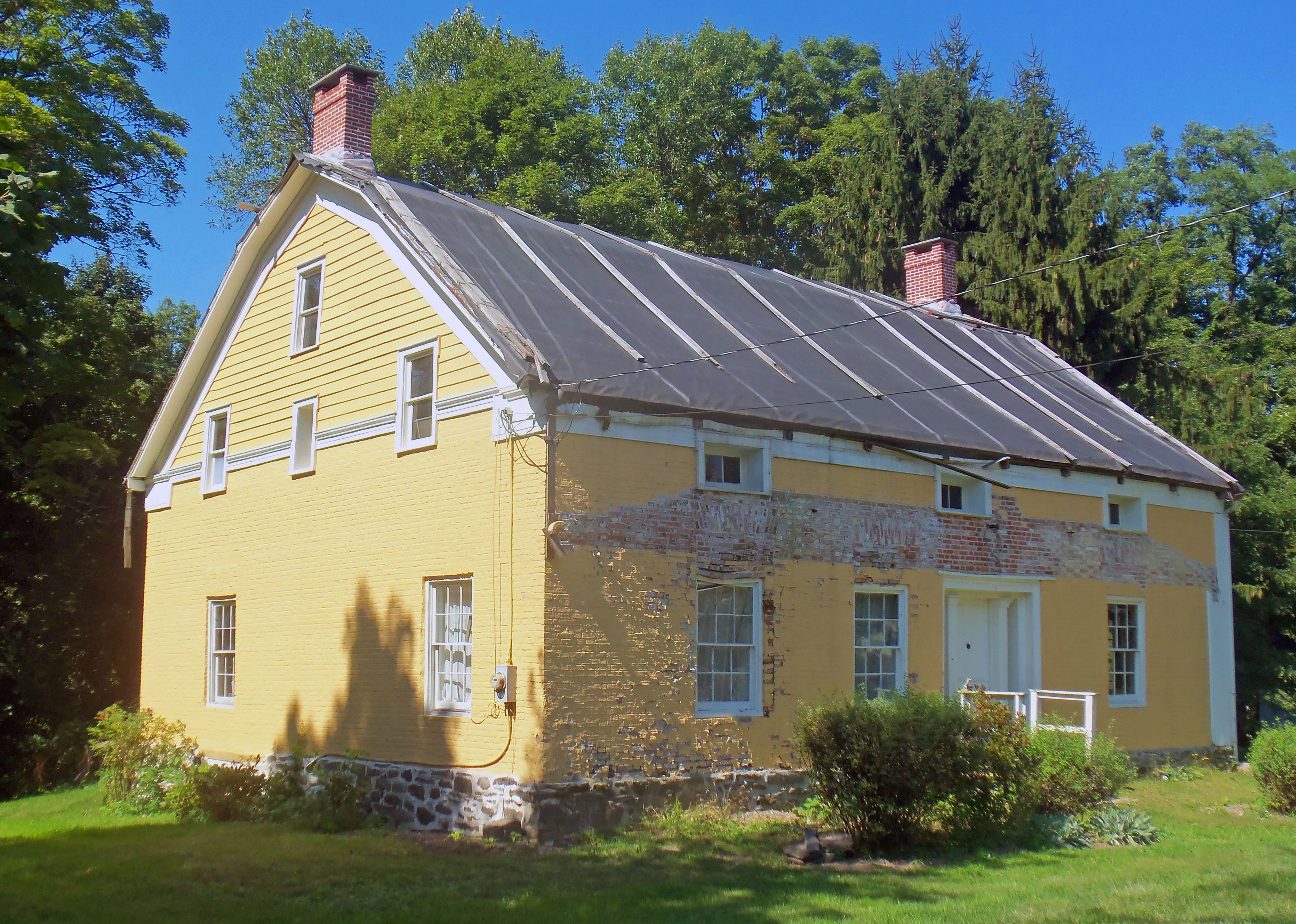 Andries DuBois House, Wallkill, NY, USA, after completion of exterior renovation shown taking place in this image.